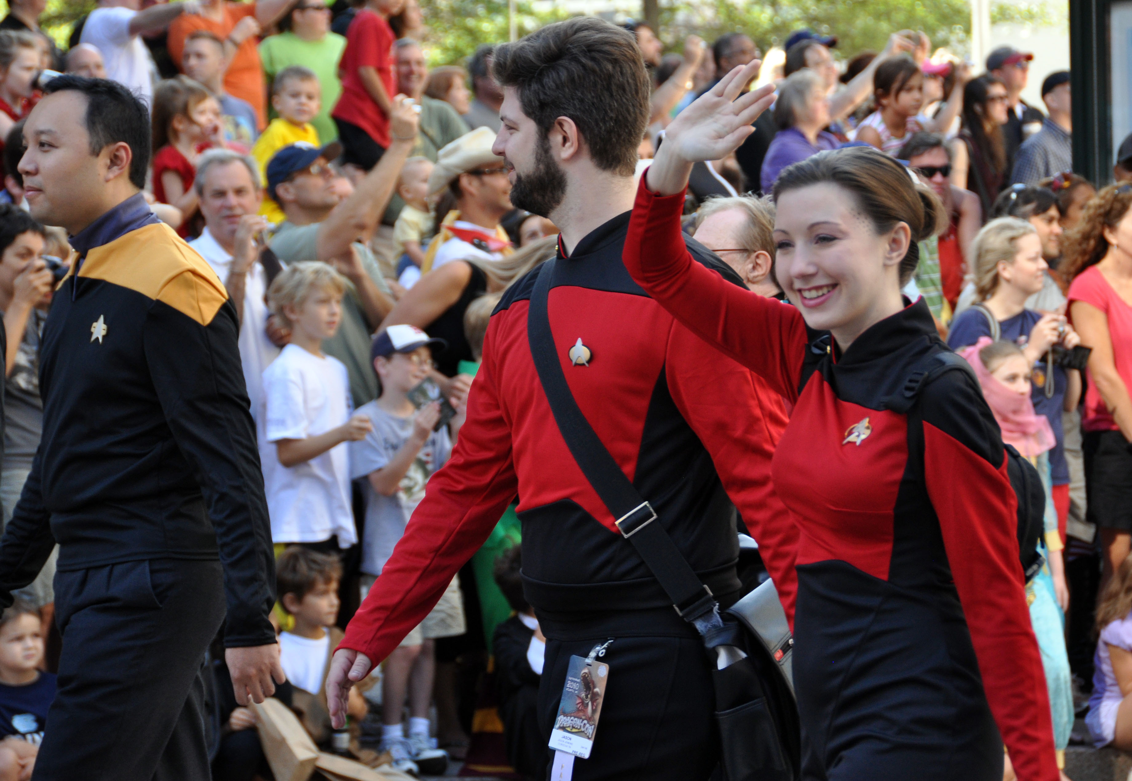 Star Trek cosplayers in Atlanta Dragon Con Parade 2010.